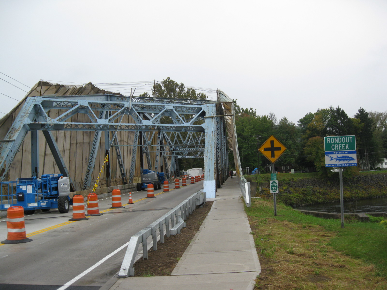 The bridge in Rosendale, New York, undergoing a rehabilitation in 2009.